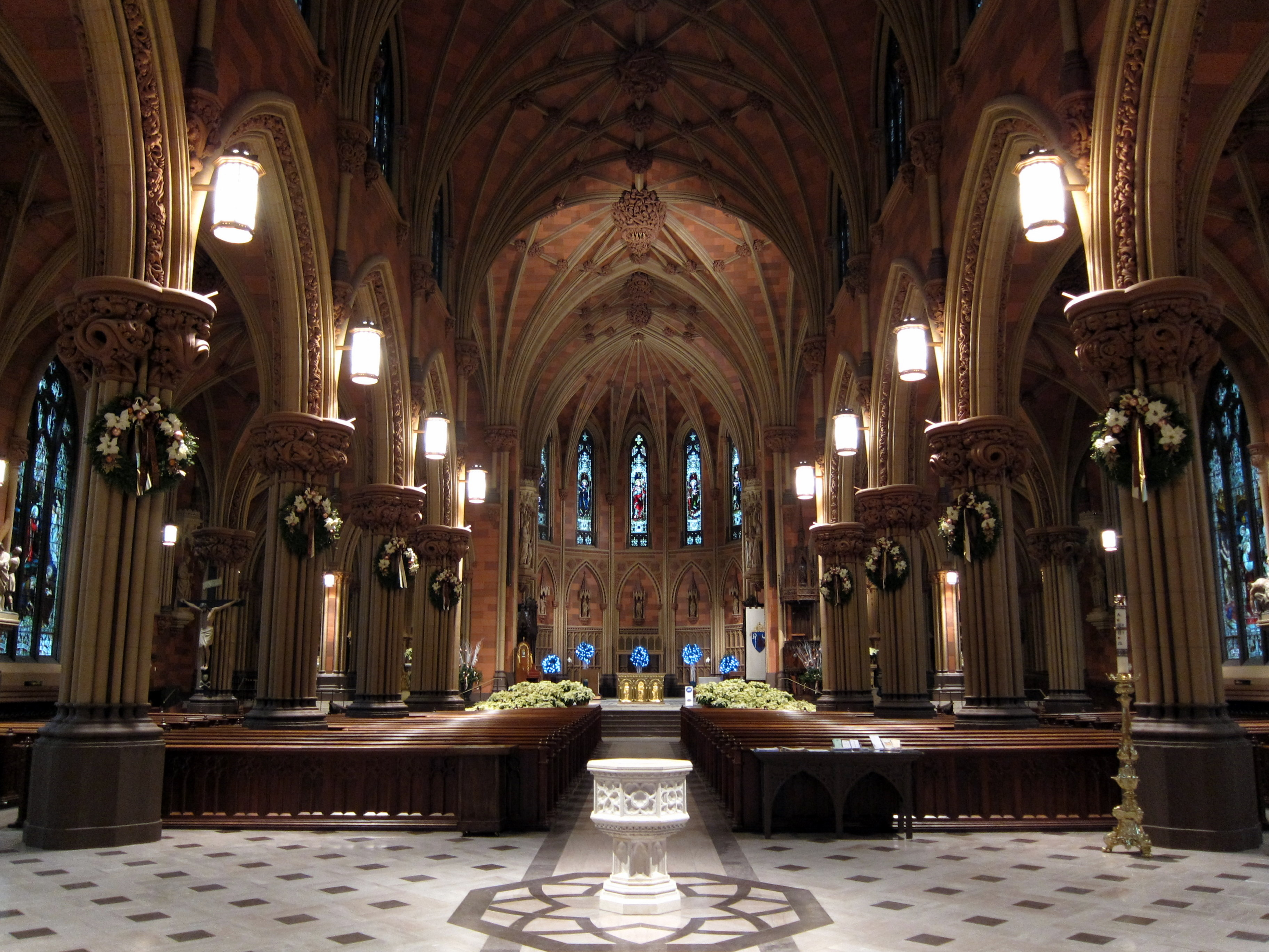 Cathedral of the Immaculate Conception (Albany, New York) - Nave, decorated for Christmas